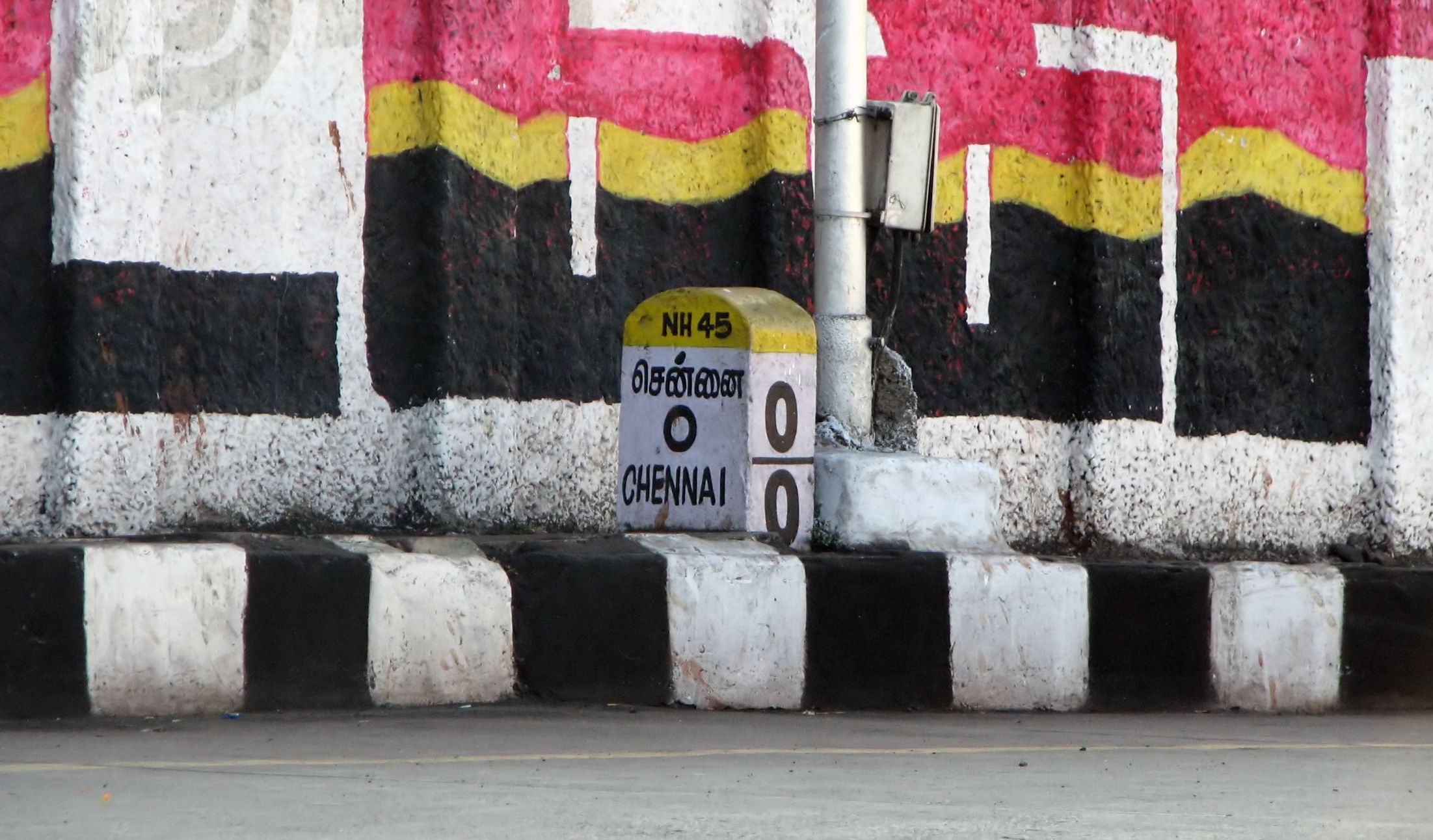 Mile stone leading to chennai ends here, near Madras Medical college.